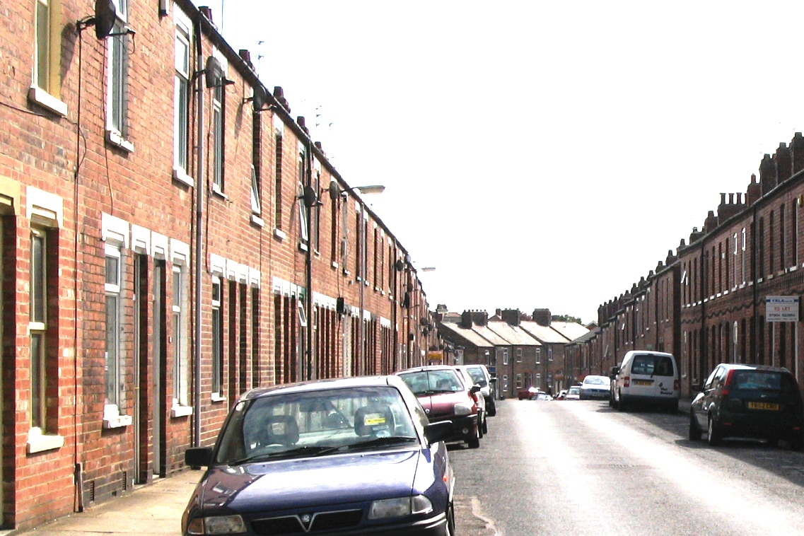 A street in South Bank containing Terraced housing - South Bank, York, United Kingdom. Improved image of South Bank taken to replace previous image both taken by myself.